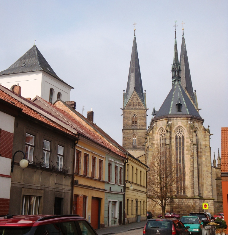 Vysoké Mýto, St Lawrence church from E